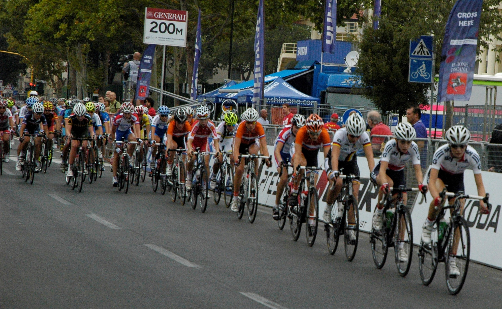 2013 UCI Road World Championships, Peloton (lap 3)